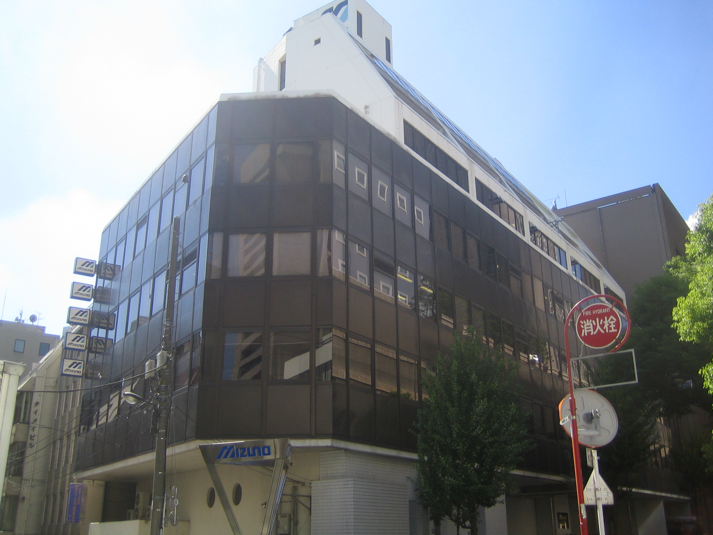 Mizuno Corp. (ミズノ), at Kanda-Ogawamachi, Chiyoda, Tokyo, Japan